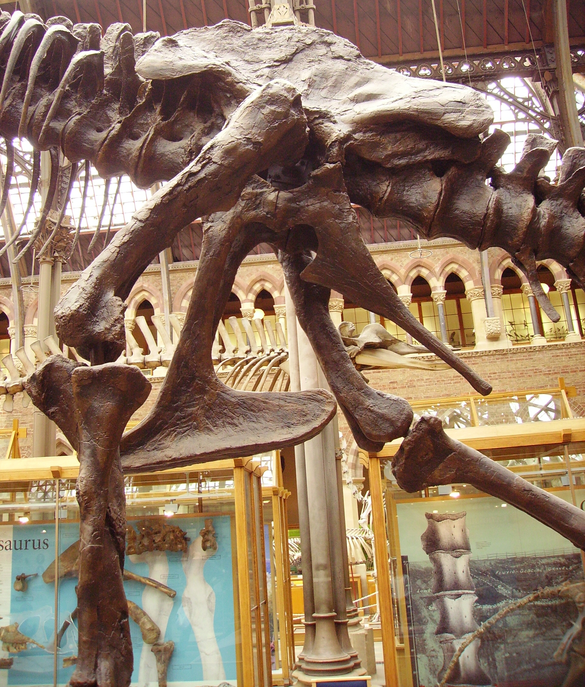 Pelvic bone of Tyrannosaurus rex, the specimen "Stan" (or BHI 3033, found in 1987).